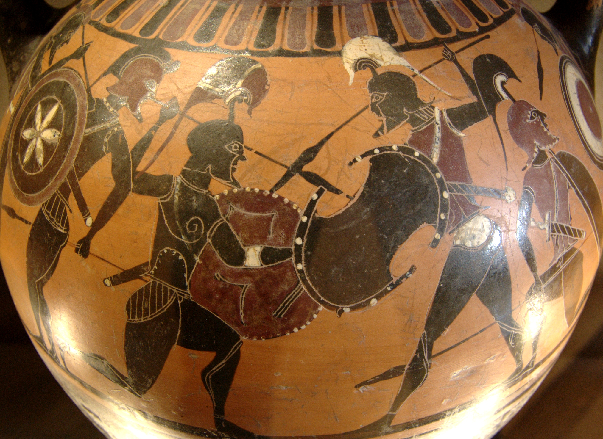 Warriors. Side B from an Attic black-figure amphora, ca. 570–565 BC.